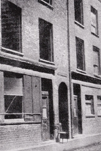 13 Miller's Court, Spitalfields. Circa 1890-1900.